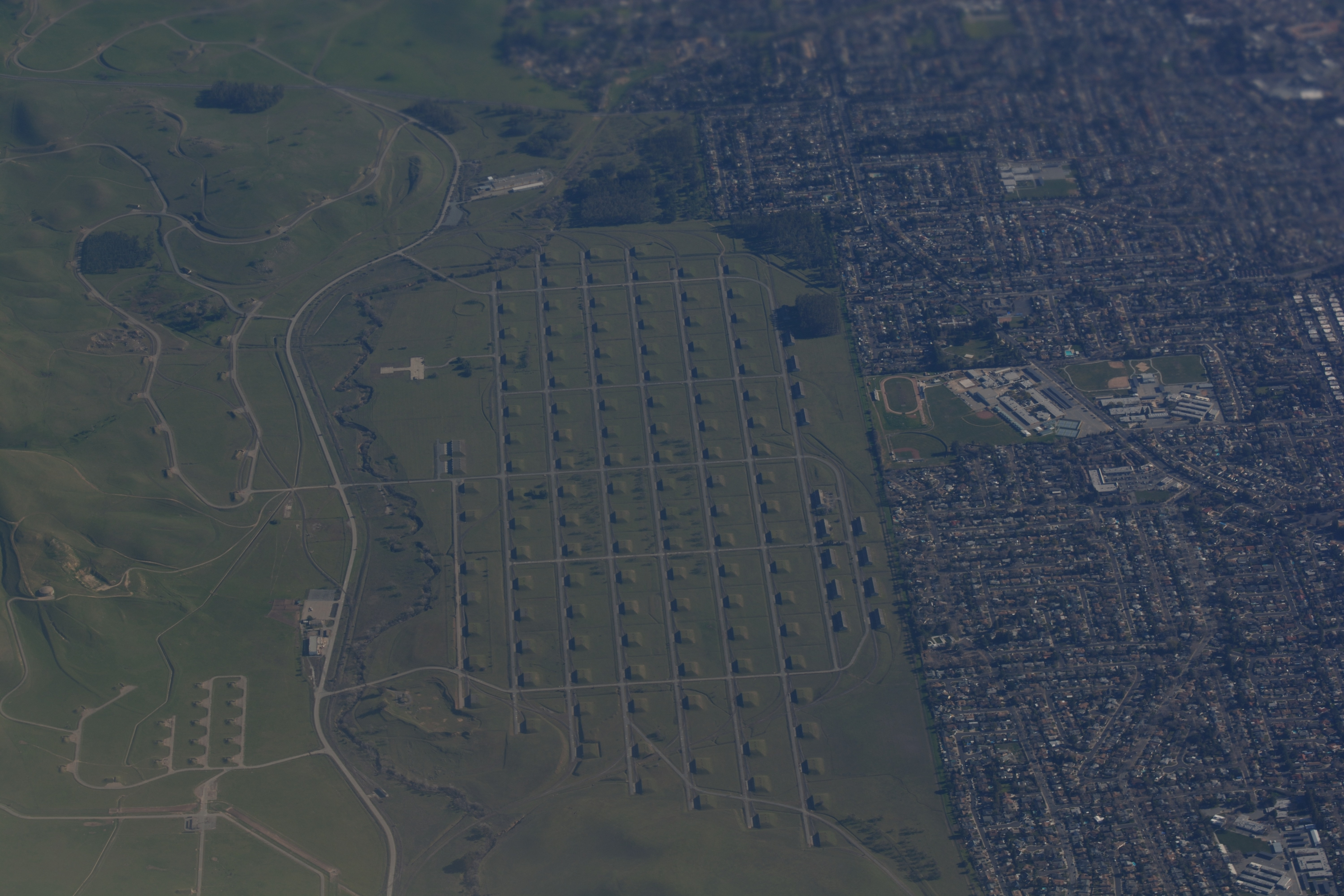 Took on UA903 flight. Thanks a lot to User:Gnu1742 for identification and locating